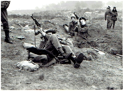 Students of Maritime Academy in Gdynia during military training.